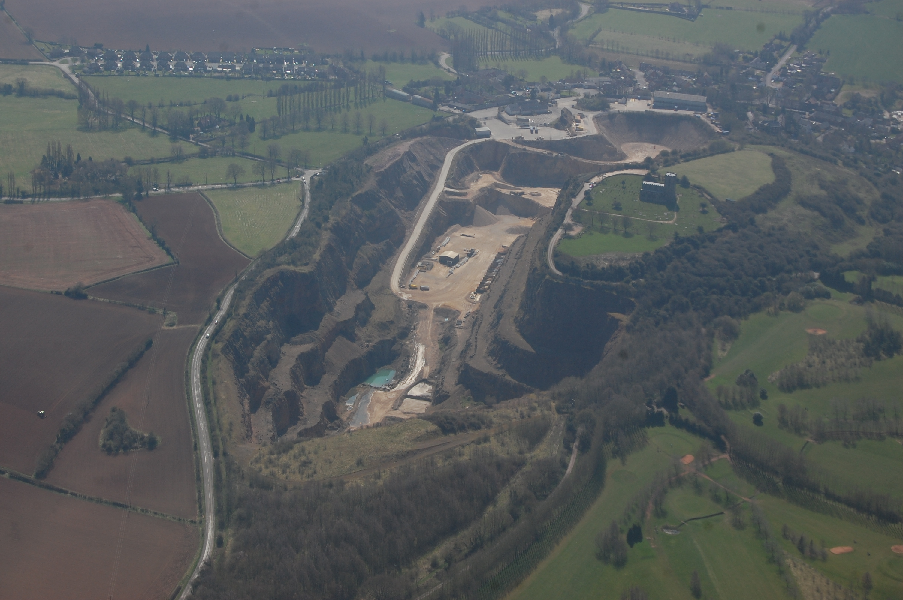 Church of St Mary and St Hardulph, Breedon on the Hill, seen from an aircraft after take off from East Midlands Airport. Camera faces approximately due south.